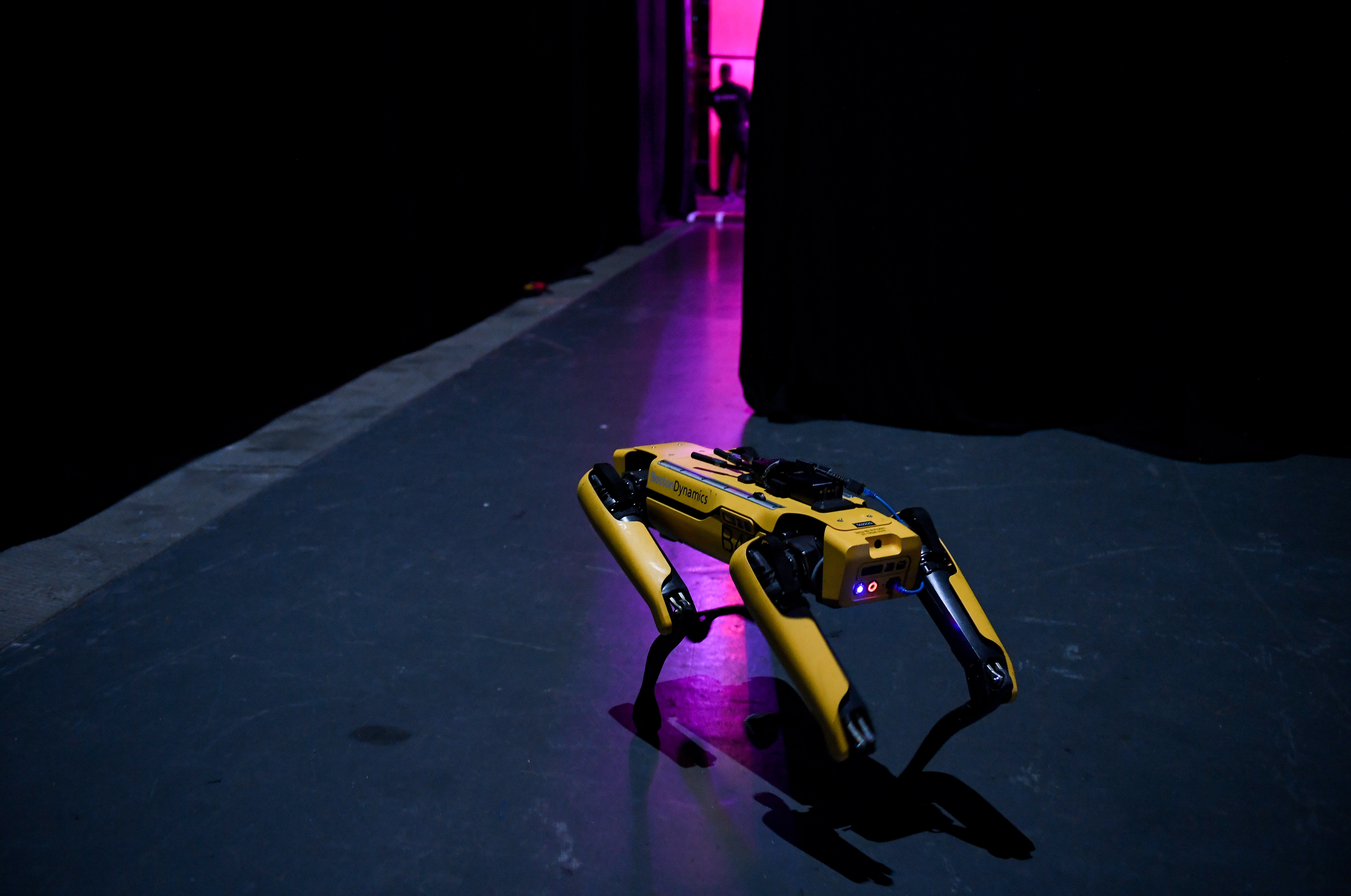 7 November 2019; SpotMini, Boston Dynamics, Robot, prior to going on Centre Stage during the final day of Web Summit 2019 at the Altice Arena in Lisbon, Portugal. Photo by Harry Murphy/Web Summit via Sportsfile